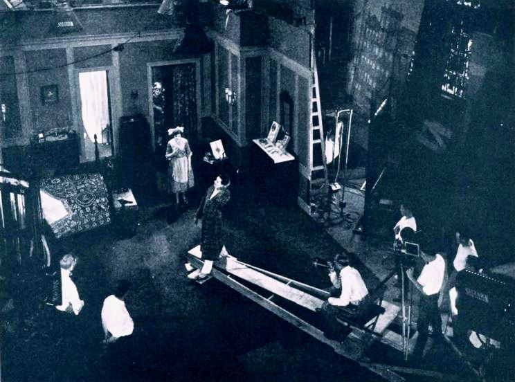 Still of the production of the American film The Way of a Maid (1921) with Elaine Hammerstein and Niles Welch, on page 24 of the April 1922 Film Fun. In this scene Welch had gotten out of bed and had a very dizzy spell. He is standing on a platform with the camera, so Niles and the camera can move together, so that Niles will appear to be stationary while the room and Elaine Hammerstein move together.